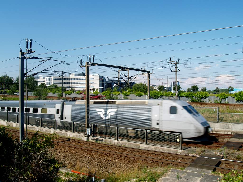 Swedish high speed X2 train leaving Copenhagen, Denmark.